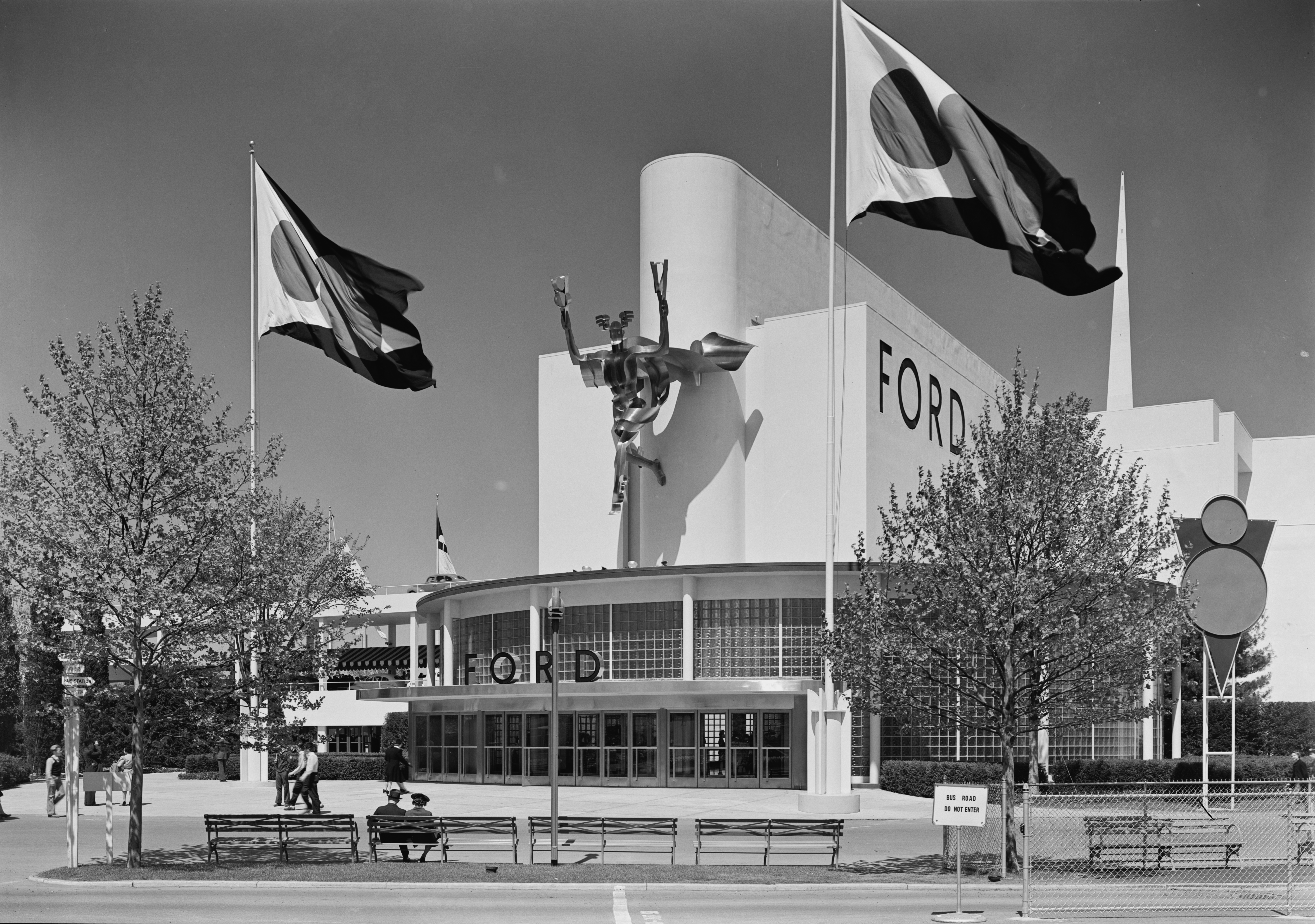 World's Fair, Ford Motor Building. Entrance